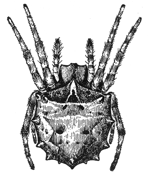 Acanthepeira stellata (Epeira stellata), enlarged four times.